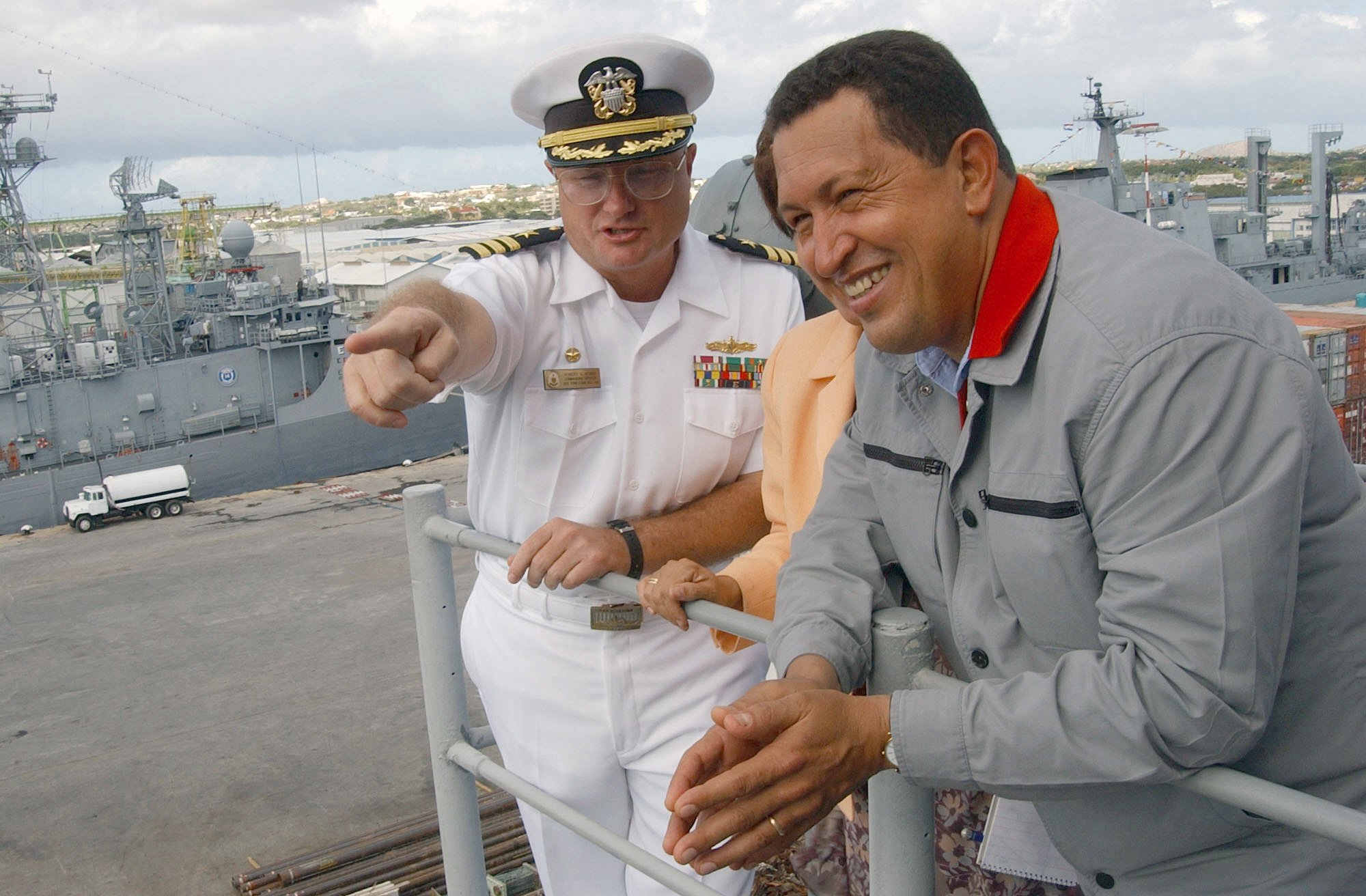 Released to Public ID: DNSD0509136 Service Depicted: Navy Command Shown: USS YORKTOWN (CG 48) 020302N0872M506 US Navy (USN) Commander (CDR) Robert S. Kerno (left), Commanding Officer (CO), USN Ticonderoga Class Cruiser USS YORKTOWN (CG 48), points out some sights to the President of Venezuela, Hugo Chavez during a tour of the ship. The YORKTOWN is visiting the city of Willemstad at Curacao, Netherlands Antilles north of Venezuela during the 43rd annual UNITAS (Unity in Spanish) exercise. UNITAS is the largest multi-national naval exercise conducted by US, Caribbean, Central, and South American naval forces with the focus on building a hemispheric coalition for mutual defense and cooperation. Location: WILLEMSTAD, CURACAO NETHERLANDS ANTILLES (ANT)